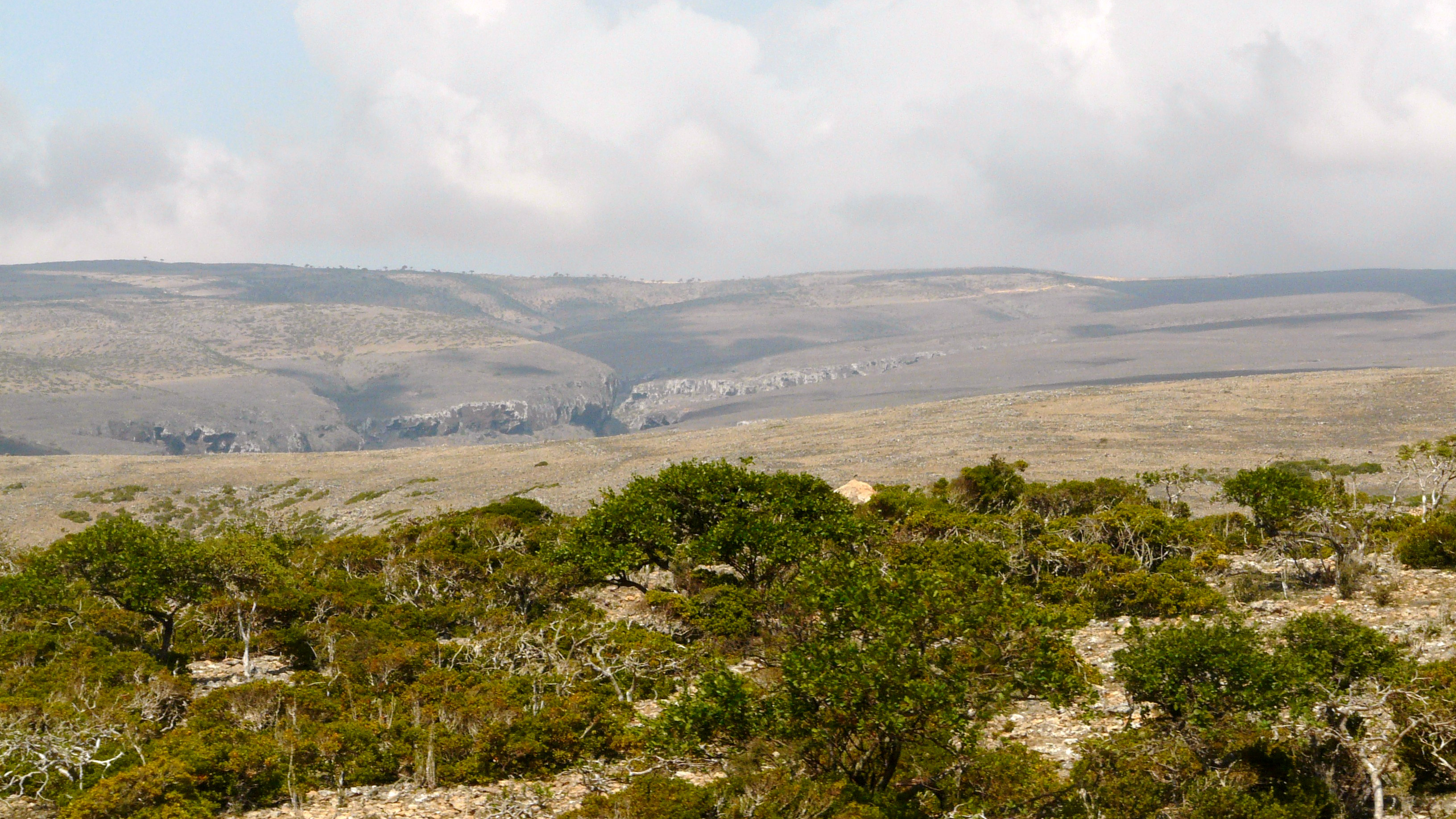 Dixam, middle of Socotra island.